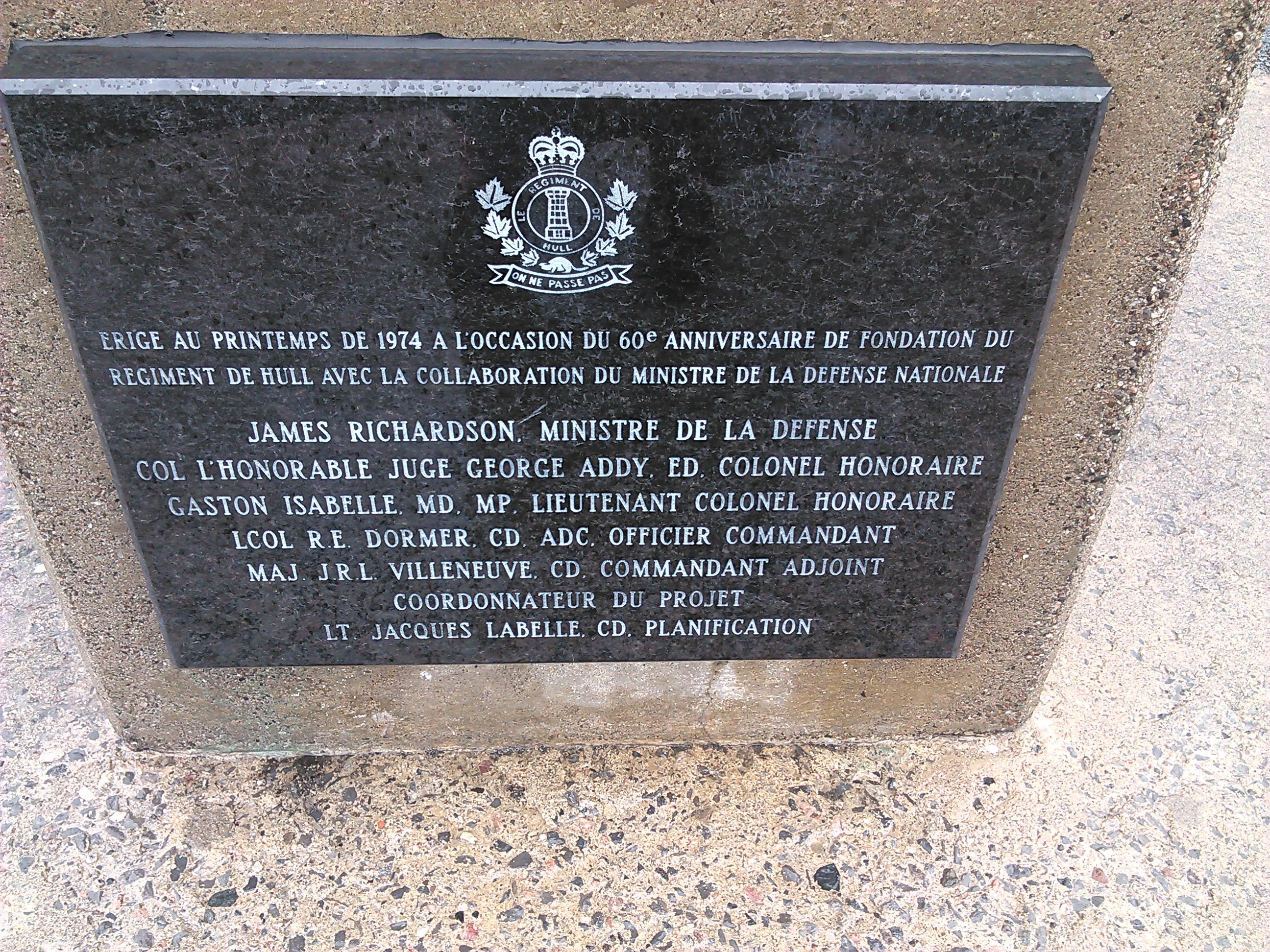 Salaberry Armoury, Gatineau, Quebec plaque 2014